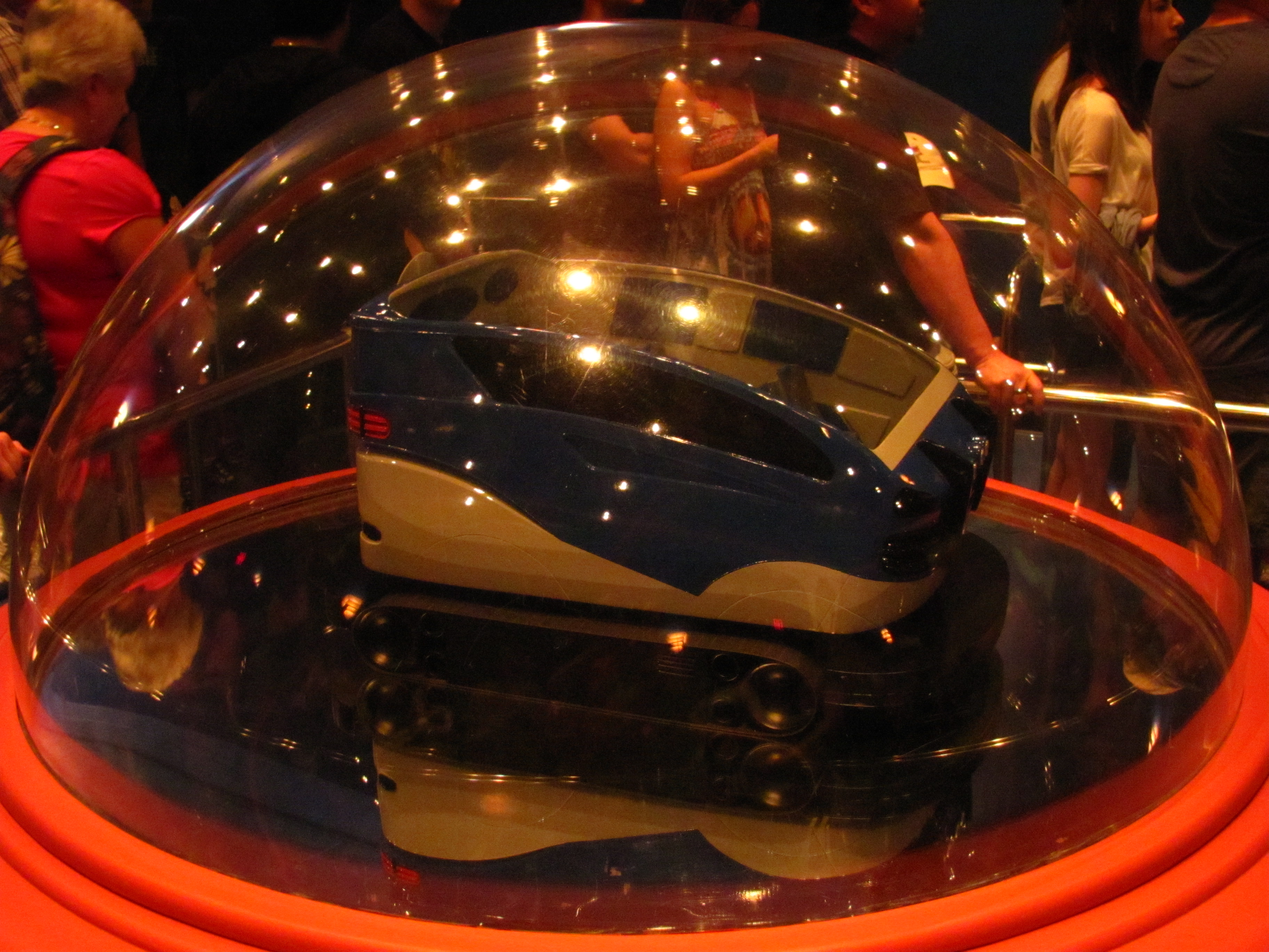 The Amazing Adventures of Spiderman